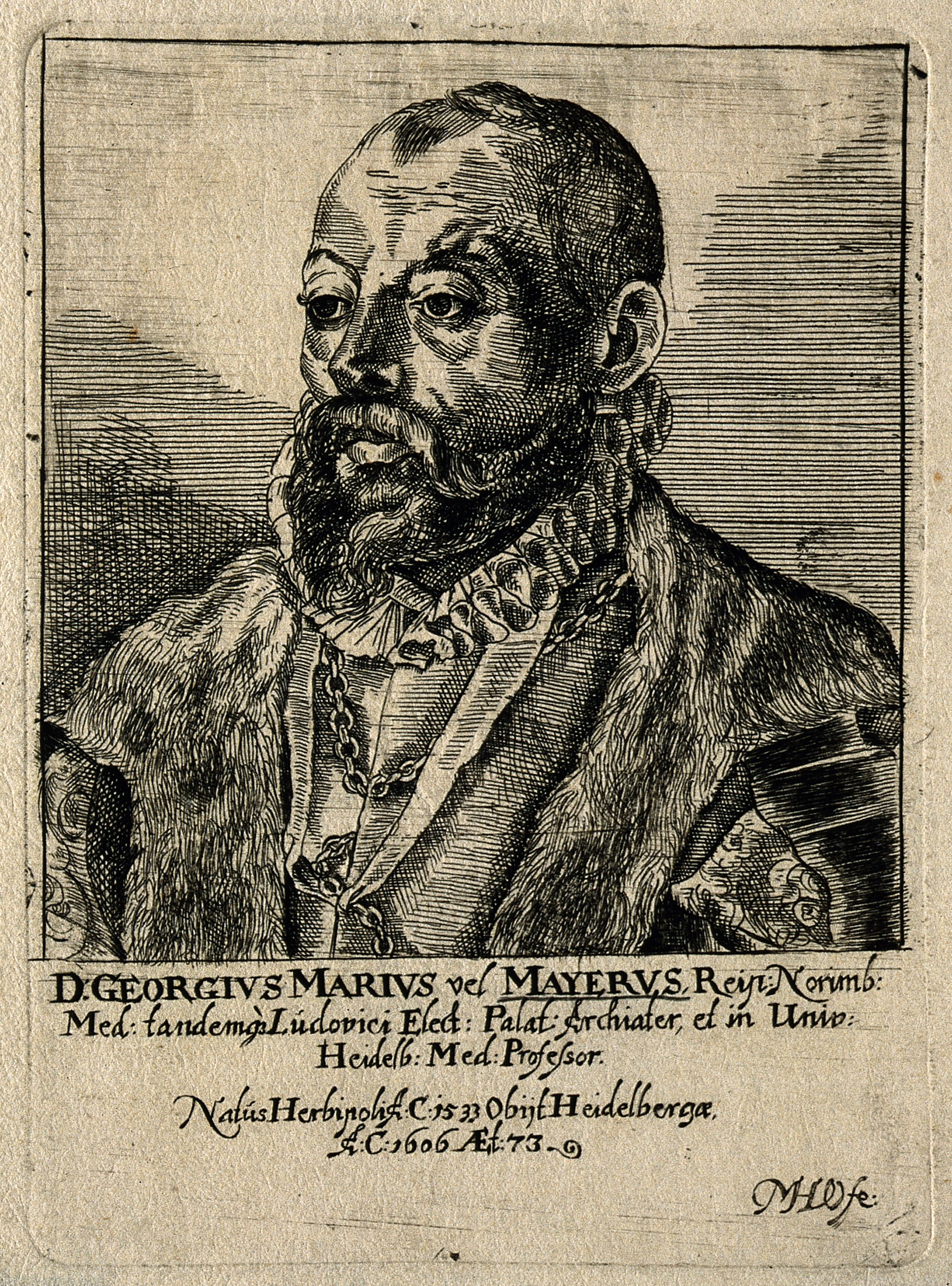 Georg Marius [Meier]. Etching by M. H. Omeis. Iconographic Collections Keywords: portrait prints; Georg Marius; etchings